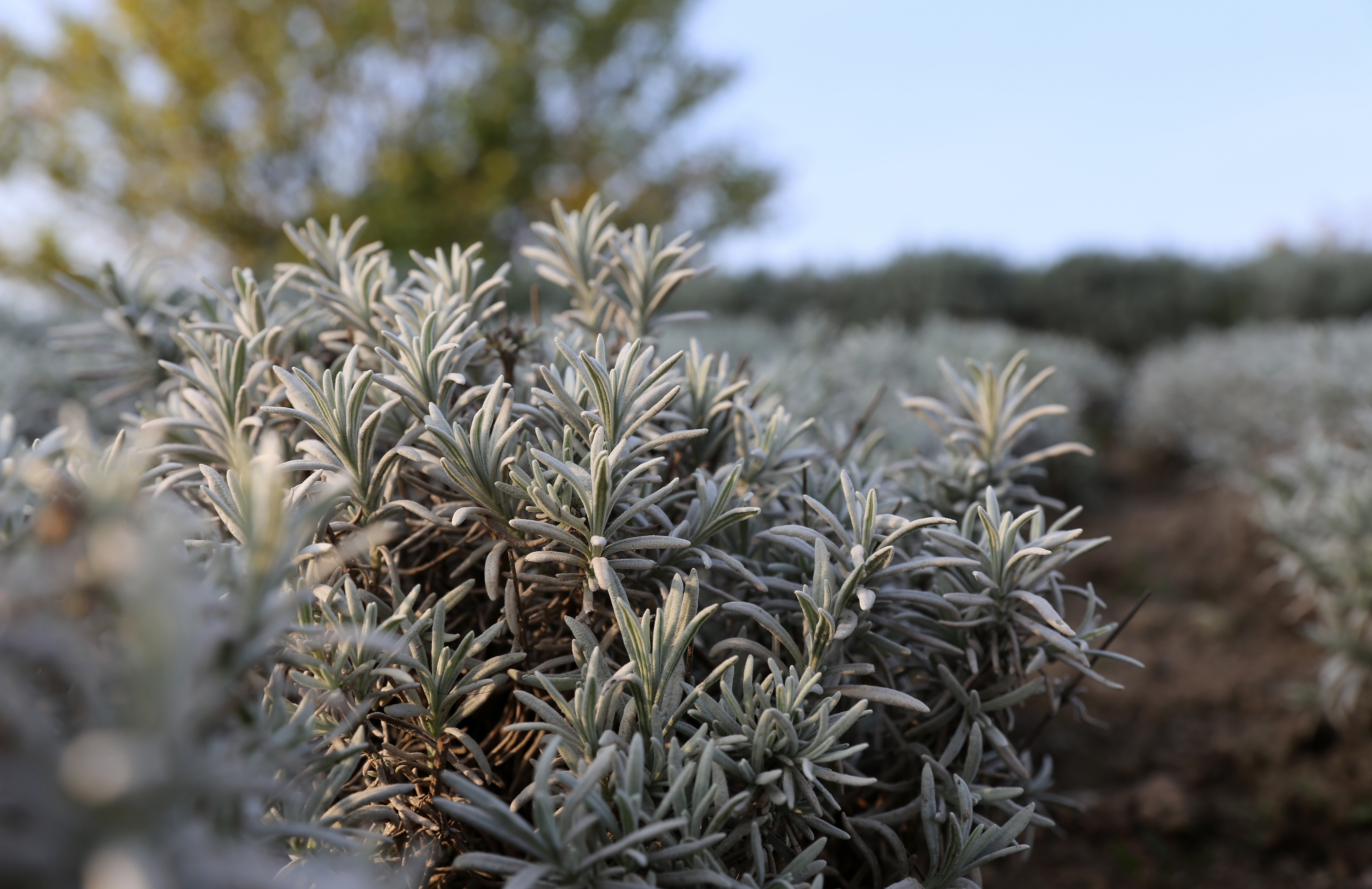 Lavandula lanata ("Silver Frost") at Blumengärten Hirschstetten in Vienna, Austria.